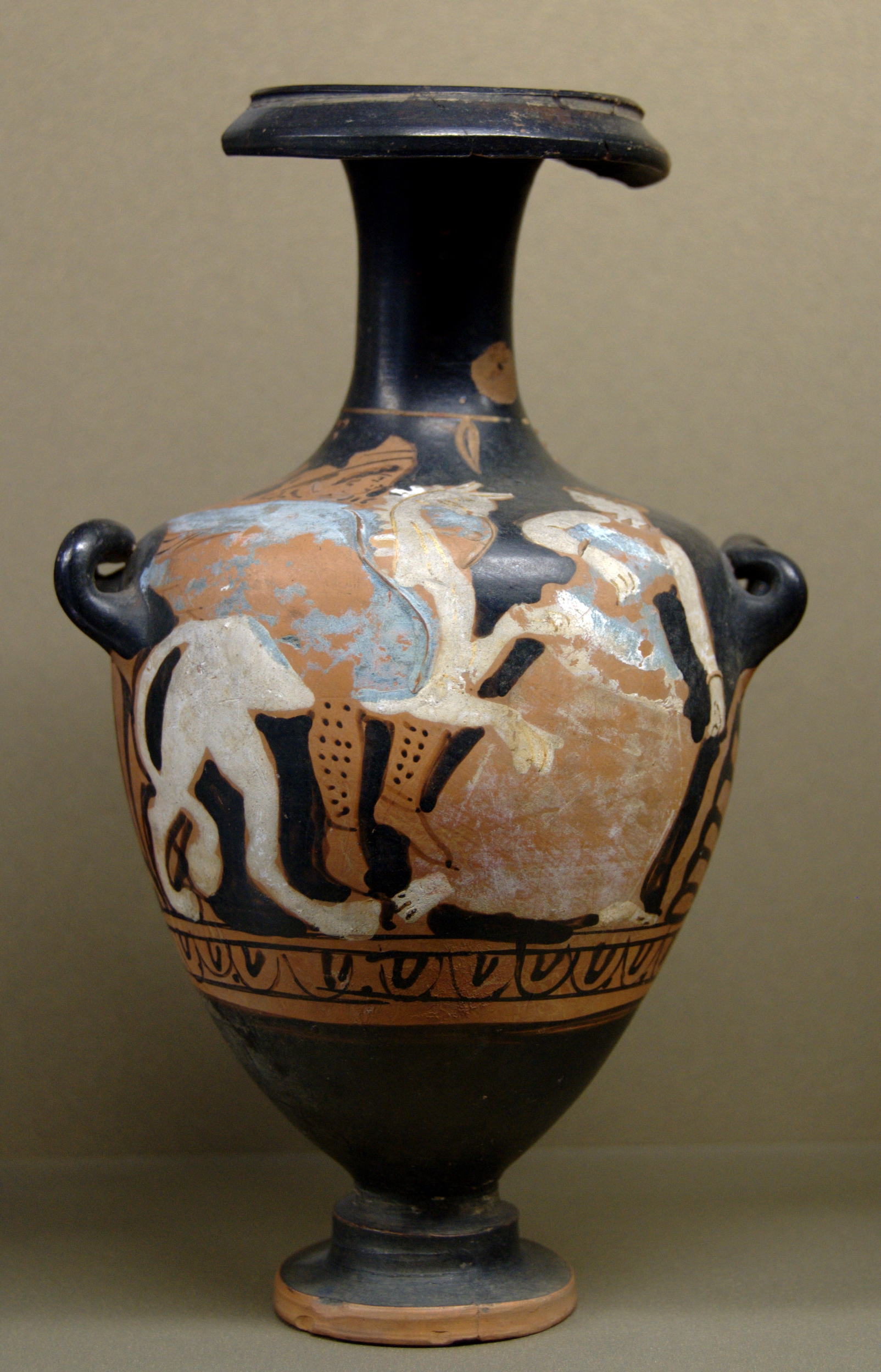 Woman and Arimaspus riding a griffin. Attic red-figure hydria in the Kerch style, ca. 370–350 BC. From Cyrenaica.